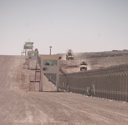 Construction of a perimeter fence at Shindand Air Base tripled the size of the base and included 52 guard towers. Force protection was a major component of the U.S. Army Corps of Engineers military construction program in Afghanistan. (Photo ID: 794774)